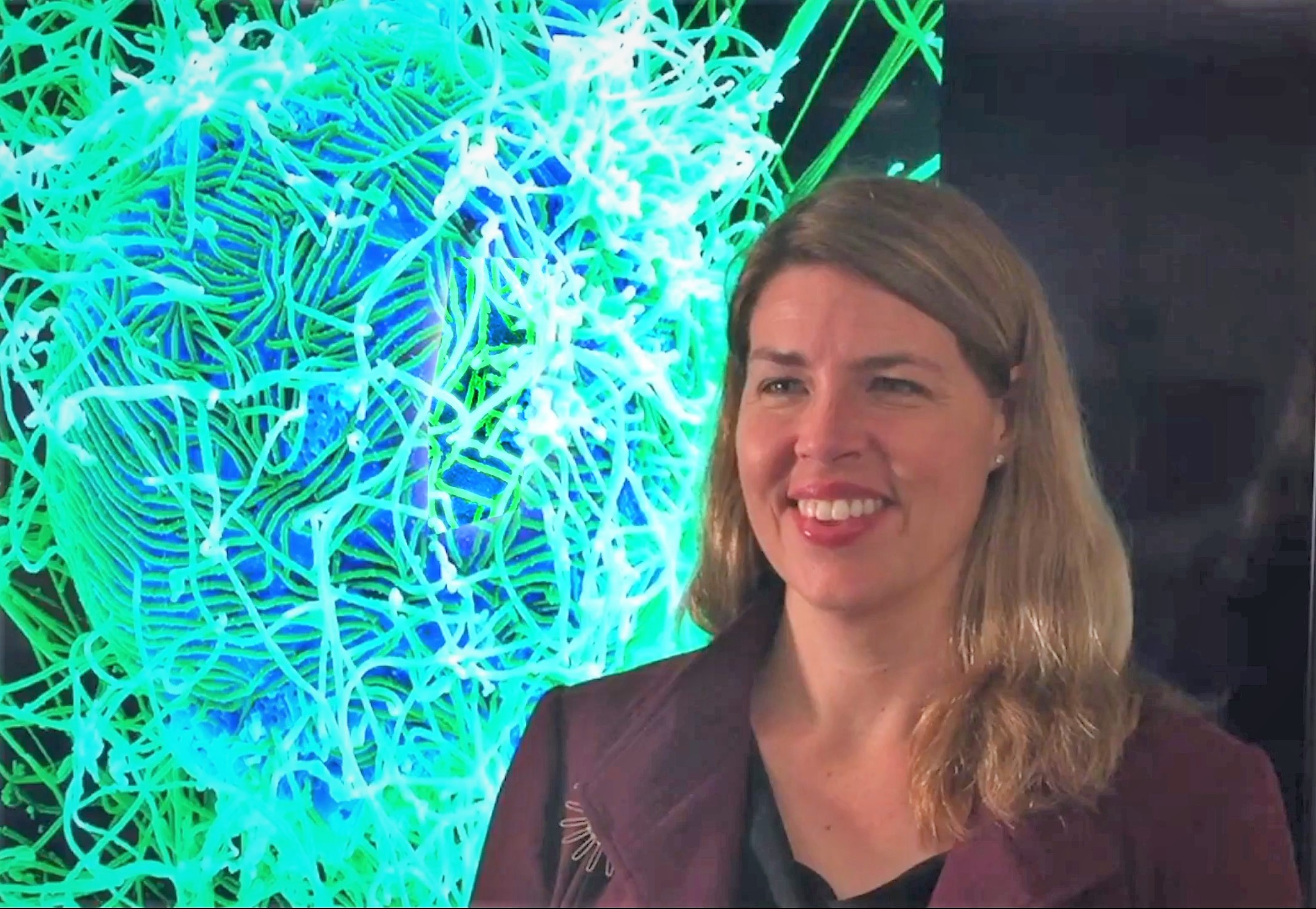 Each year, NIAID hosts the Joseph J. Kinyoun Memorial Lecture to highlight important issues, discoveries and initiatives by scientists working in the world of infectious diseases. The 2017 speaker, Dr. Erica Ollmann Saphire, director of the Viral Hemorrhagic Fever Immunotherapeutic Consortium and a professor at The Scripps Research Institute in La Jolla, Calif., gave a lecture in December on “Antibodies Against Ebola and Lassa: A Global Collaboration.” Afterward, she spoke with NIAID Now about her work in the lab and the purpose of the VIC.